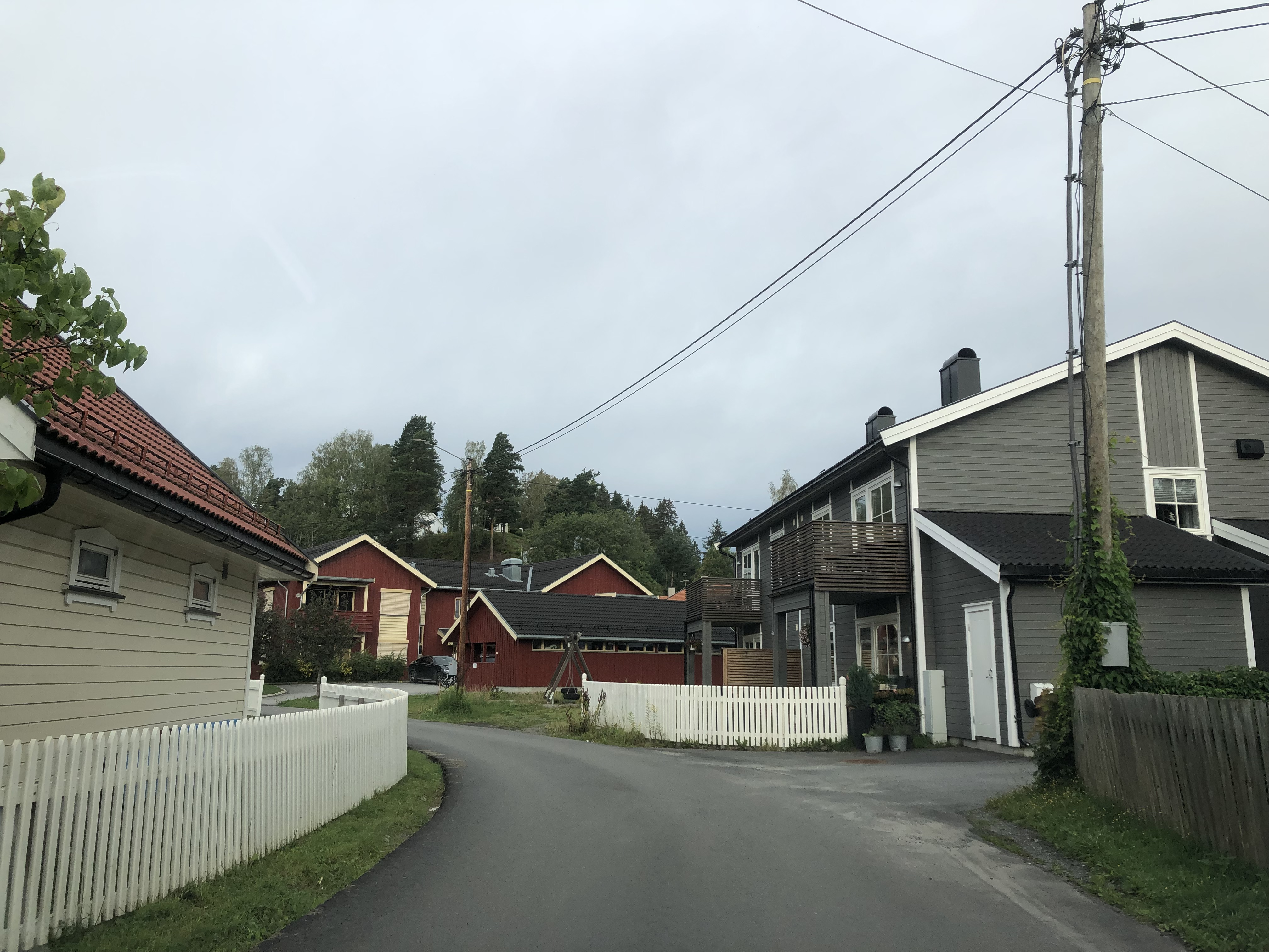 Slettåkerveien, Hønefoss